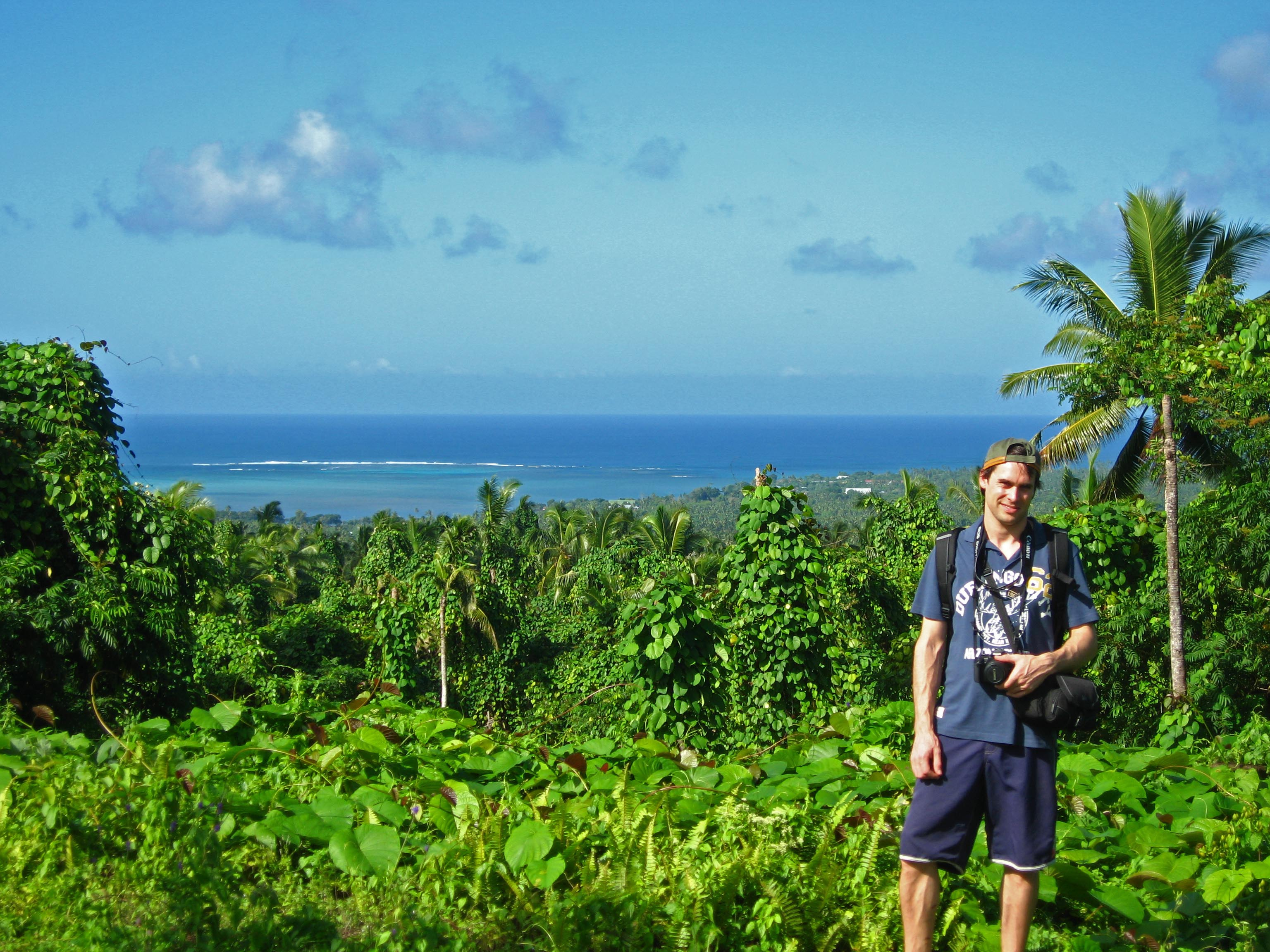 View from Pulemelei Mound, Palauli district, south east side of Savai'i island in Samoa. Pulemelei mound is the biggest historial site in the Polynesian group